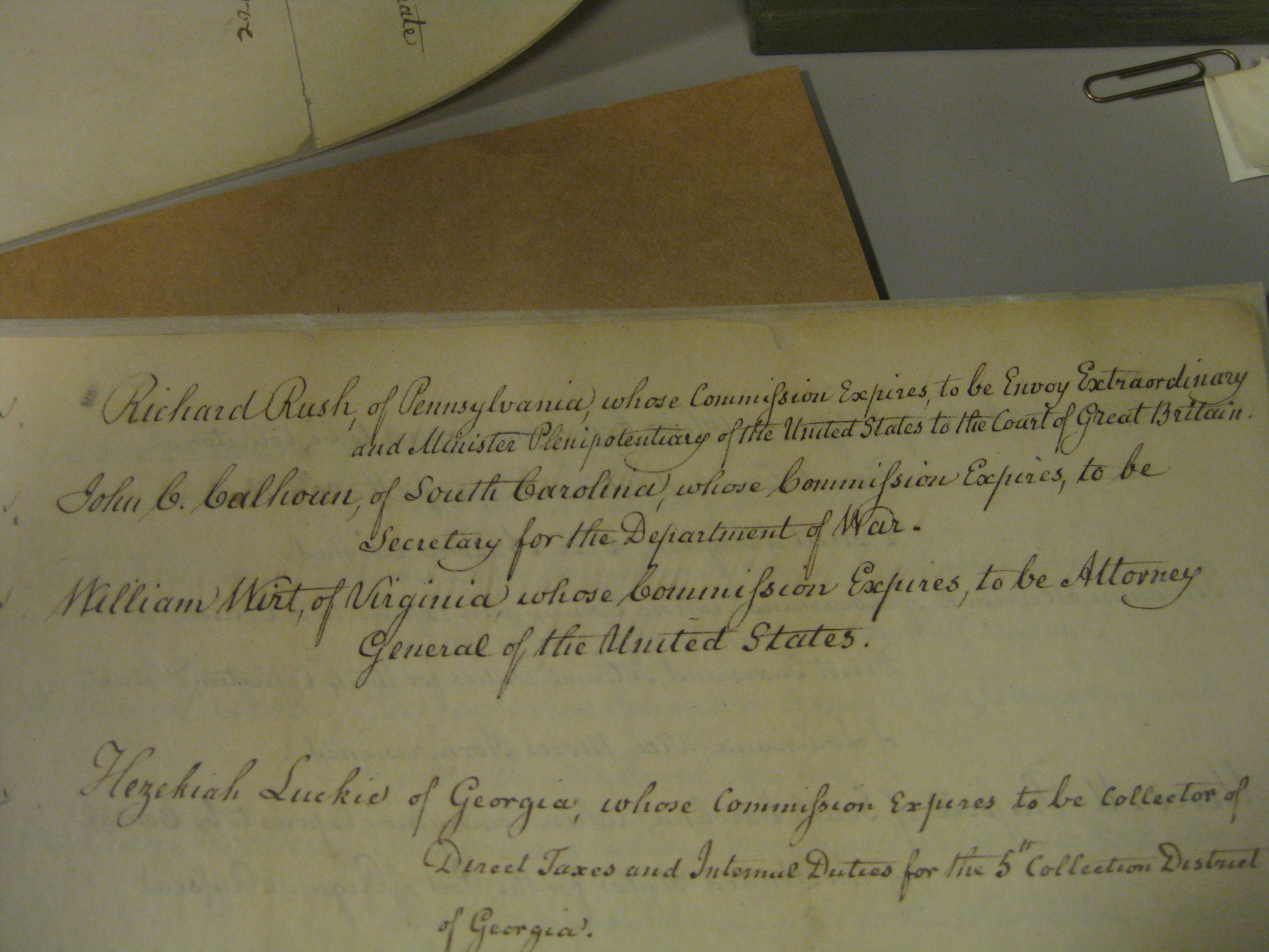 James Monroe's nomination of William Wirt to serve as U.S. Attorney General. Courtesy of the National Archives and Records Administration.